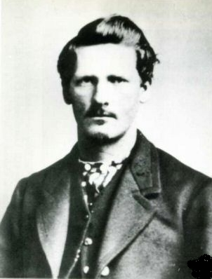 Wyatt Barry Stapp Earp circa 1869, at about age 21.